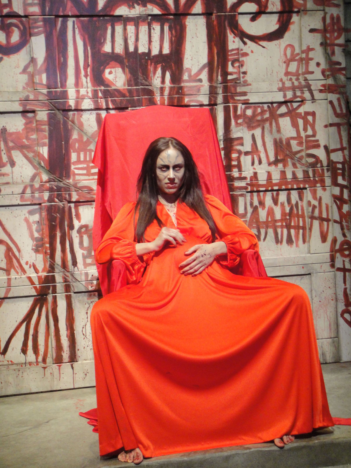 Dowtown Carrier Annex, Los Angeles, CA, US. Sony DSC-T900